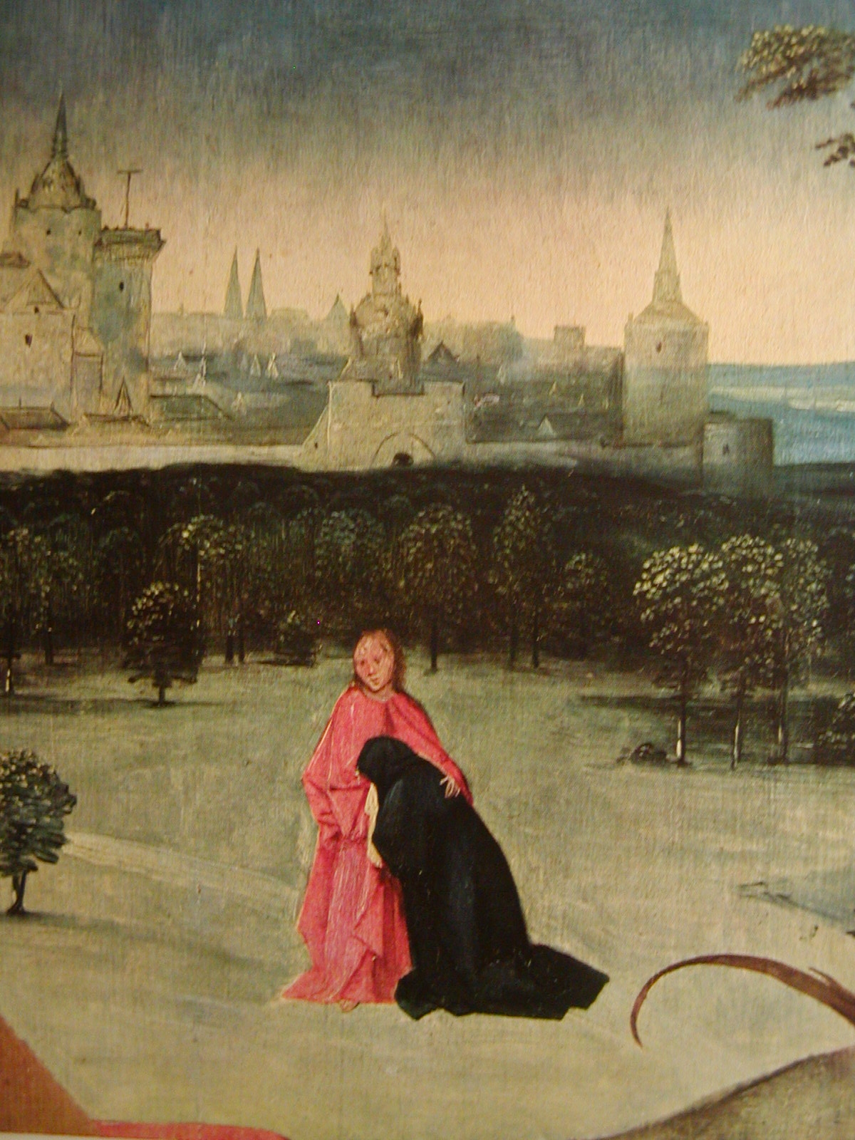 Christ Carrying the Cross, detail.